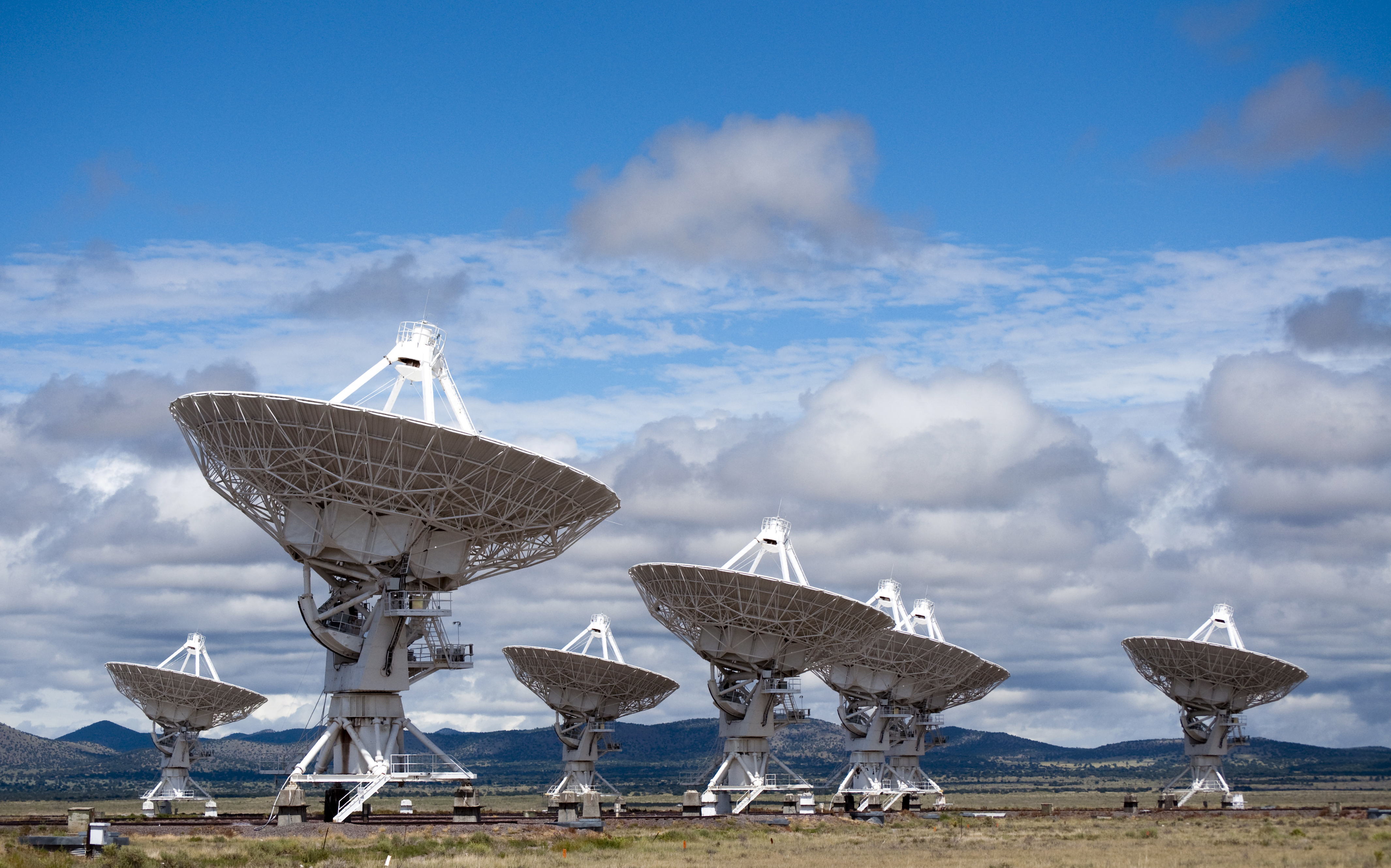 A few of the dish antennas of the Very Large Array a radio telescope located in Socorro, New Mexico, USA. Completed in 1980, it consists of 27 large 25 meter diameter parabolic antennas arranged in a Y shape, mounted on railroad tracks (visible at bottom) so they can be moved. Photo taken on North American road trip, 2009-08, filtered, edited.